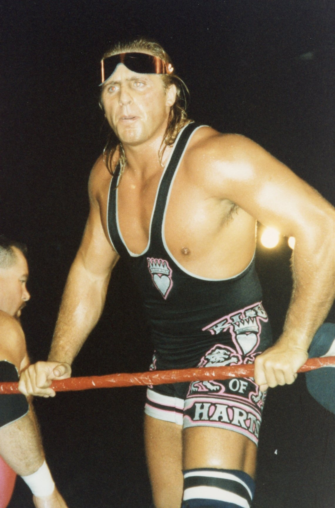 Professional wrestler Owen Hart